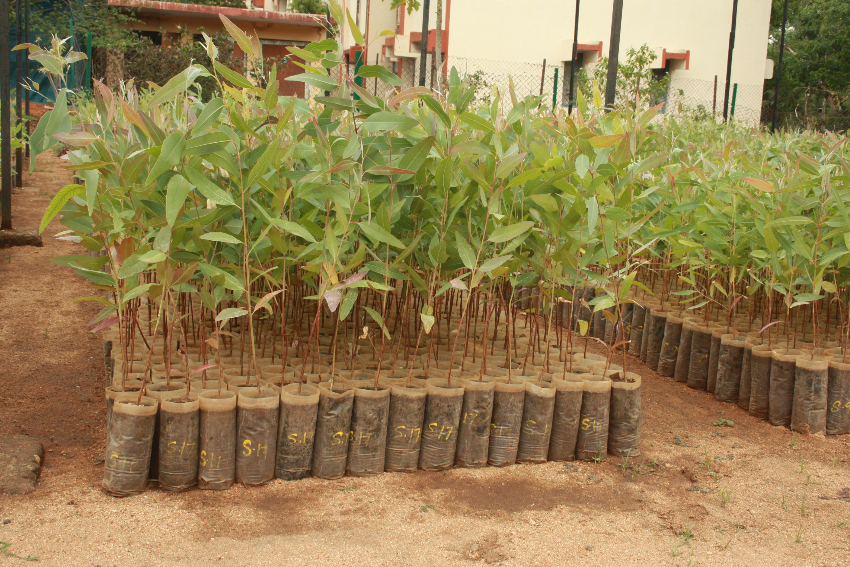 Few seedlings raised from seeds of eucalyptus